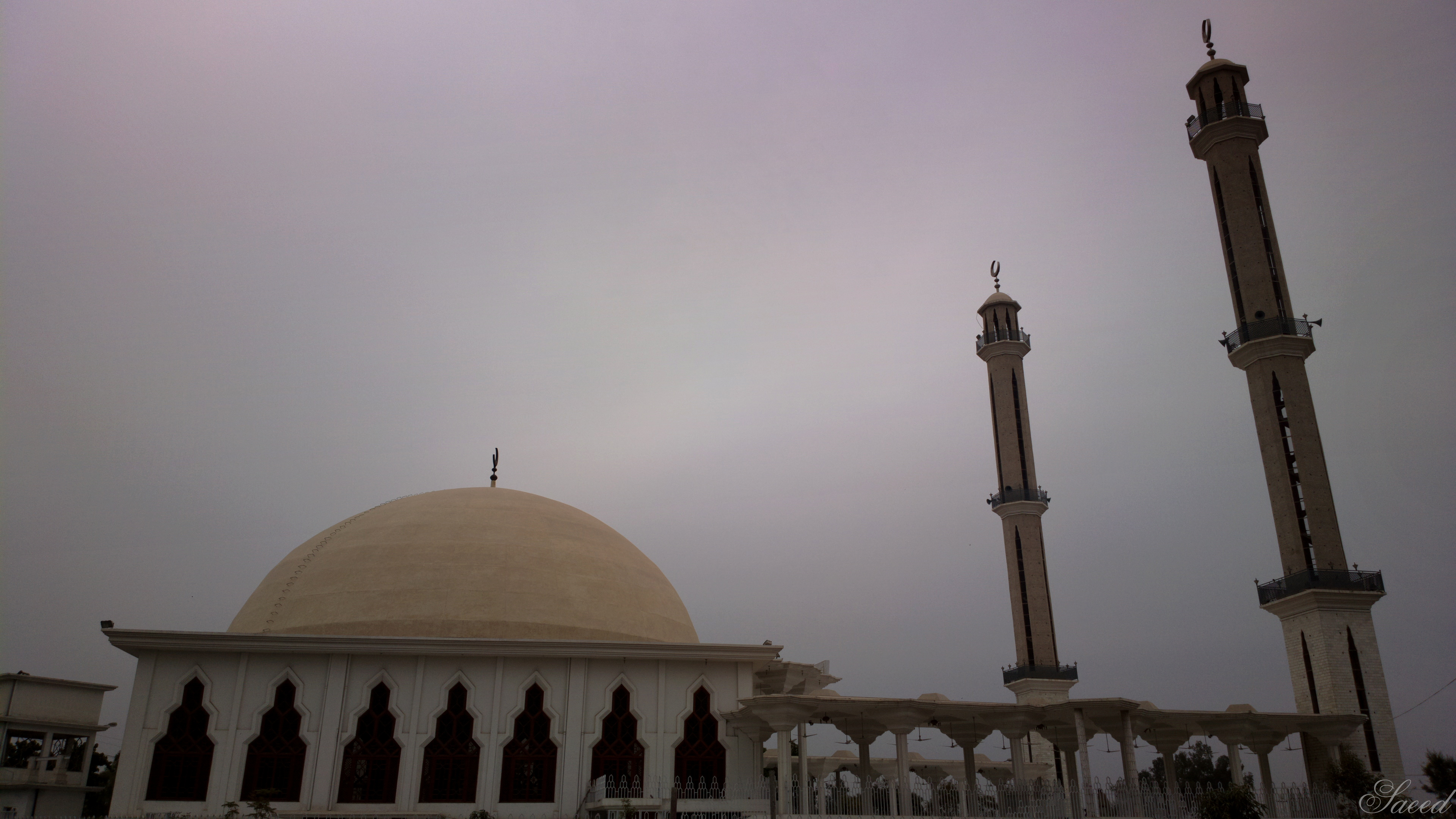 Phase 2